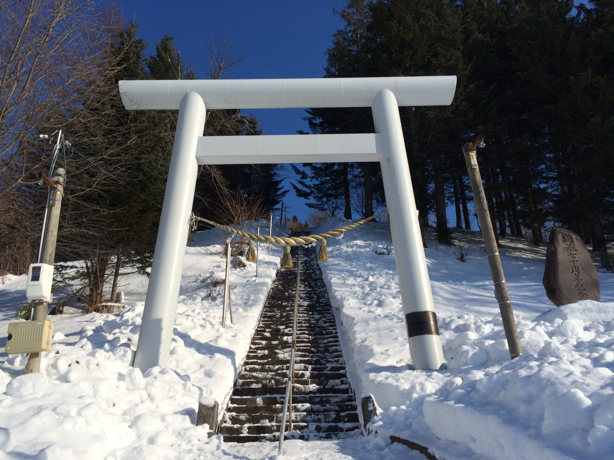 Torii at Yobito Shrine (Yobito-jinja) in Abashiri City, Hokkaido Prefecture, Japan